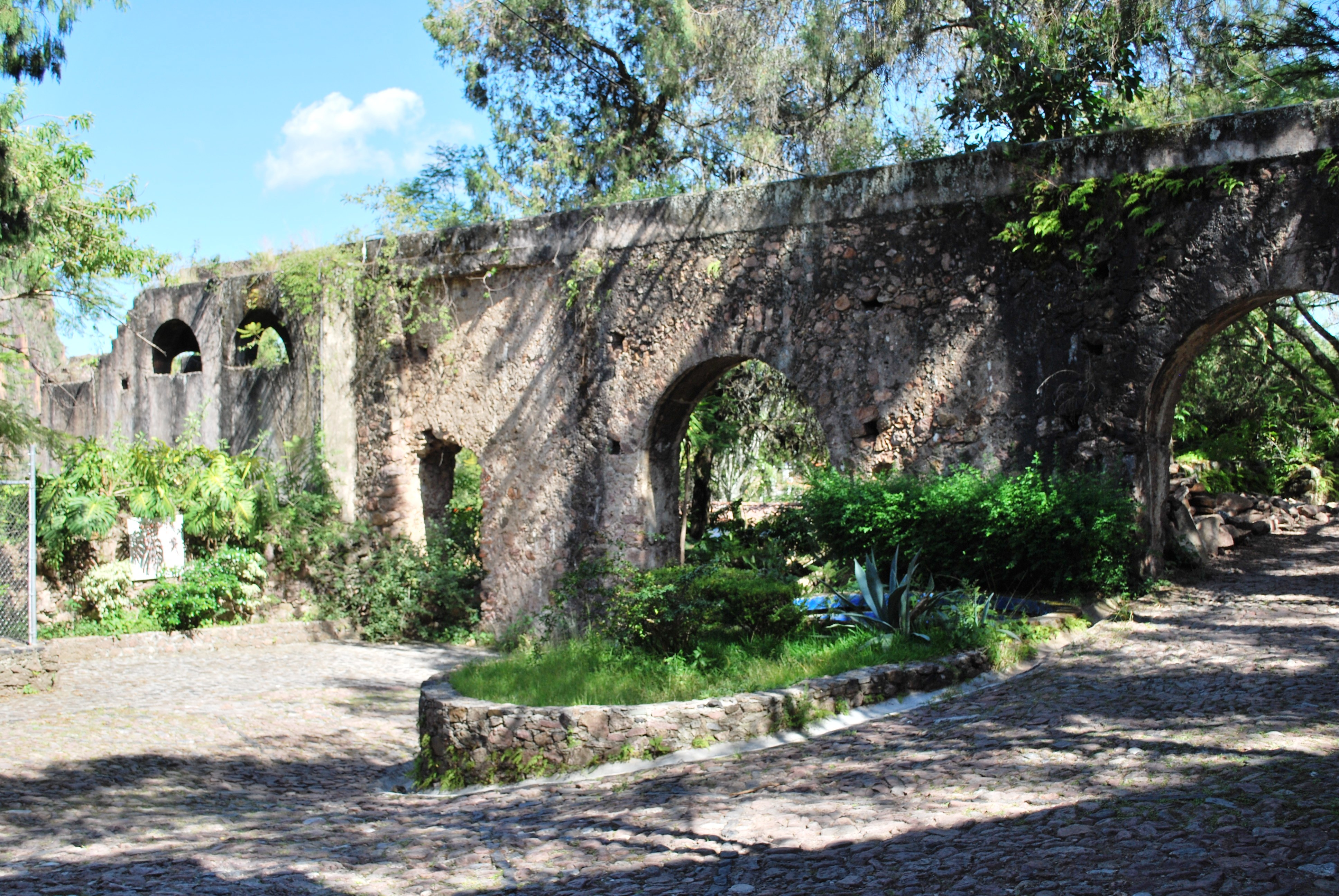 Aqueduct of the Ex-hacienda of Chorillo in Taxco de Alarcón, Guerrero, Mexico